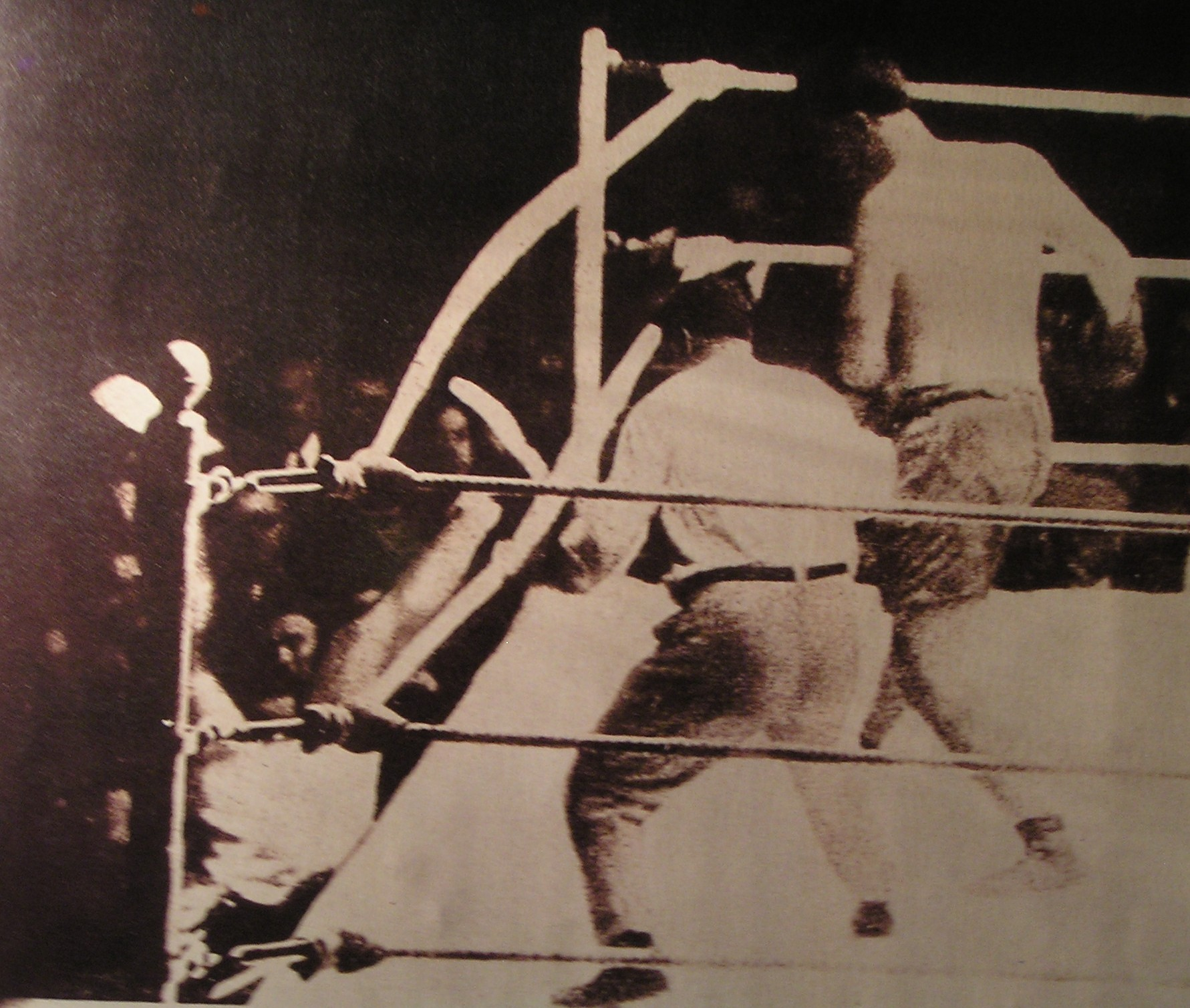 Argentinian boxer Luis Ángel Firpo throwing Jack Dempsey out the ring. September 14, 1923.